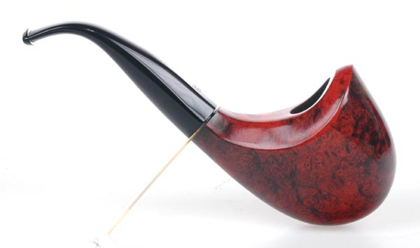 Design Berlin Skipper Smooth